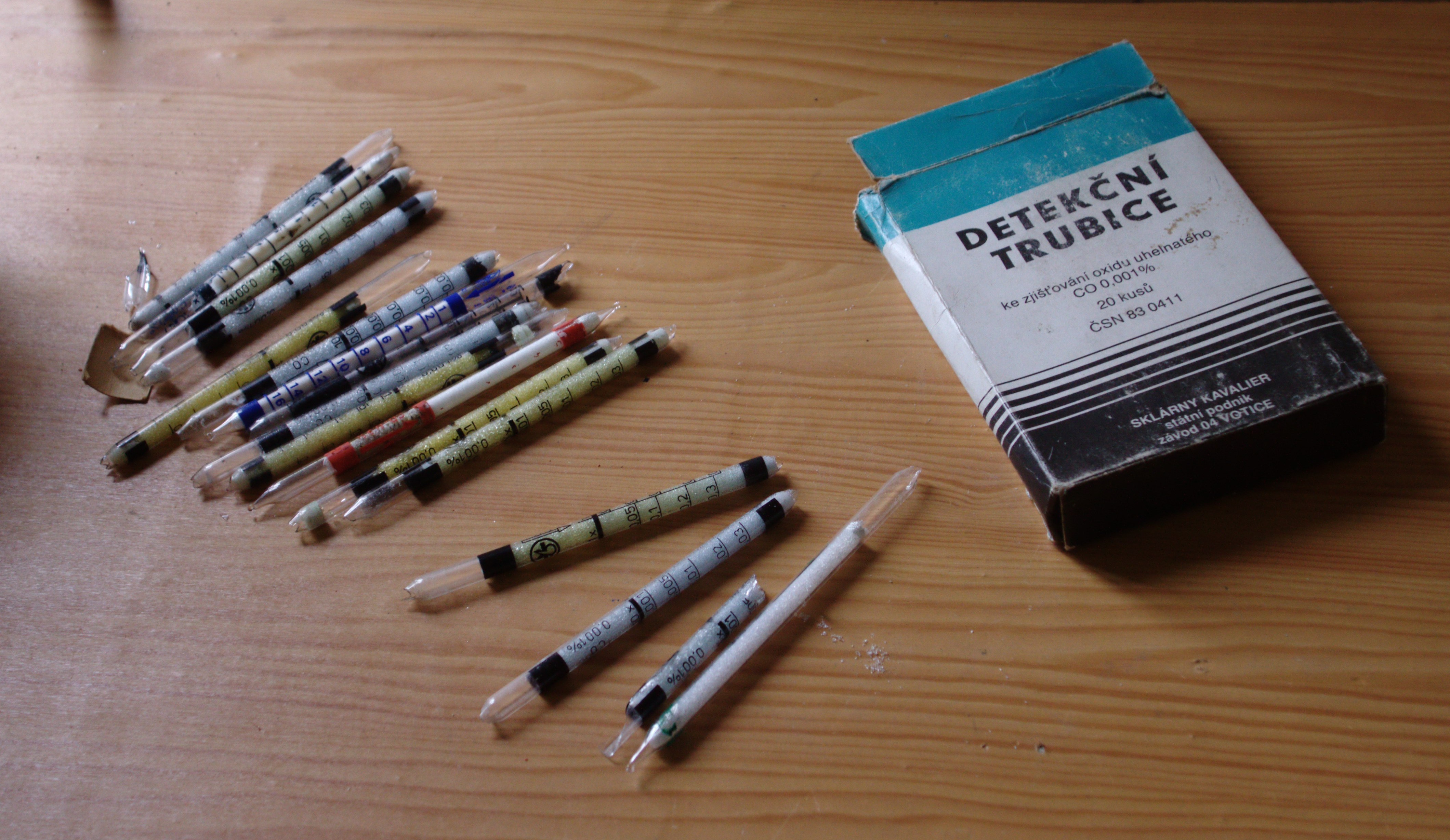 CO2 detection tubes. Mayrau museum mine near Vinařice and Kladno in Central Bohemian Region, CZ Project: Fotíme Česko